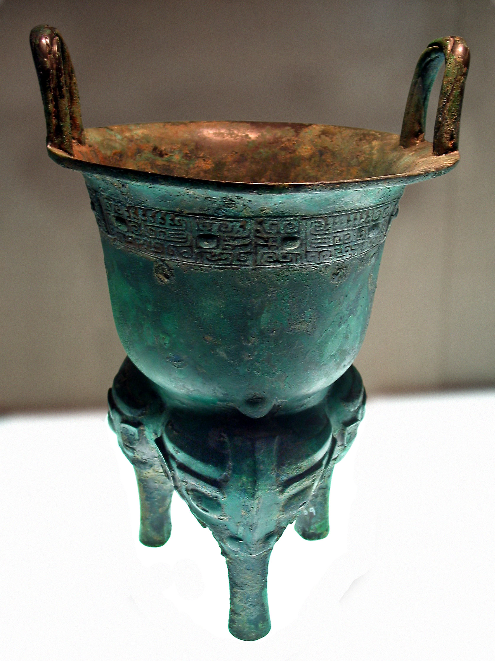 Gefujia Yan Steamer (戈父甲甗), unearthed in Fangshan, Beijing, now displayed in Capital Museum, Beijing, China